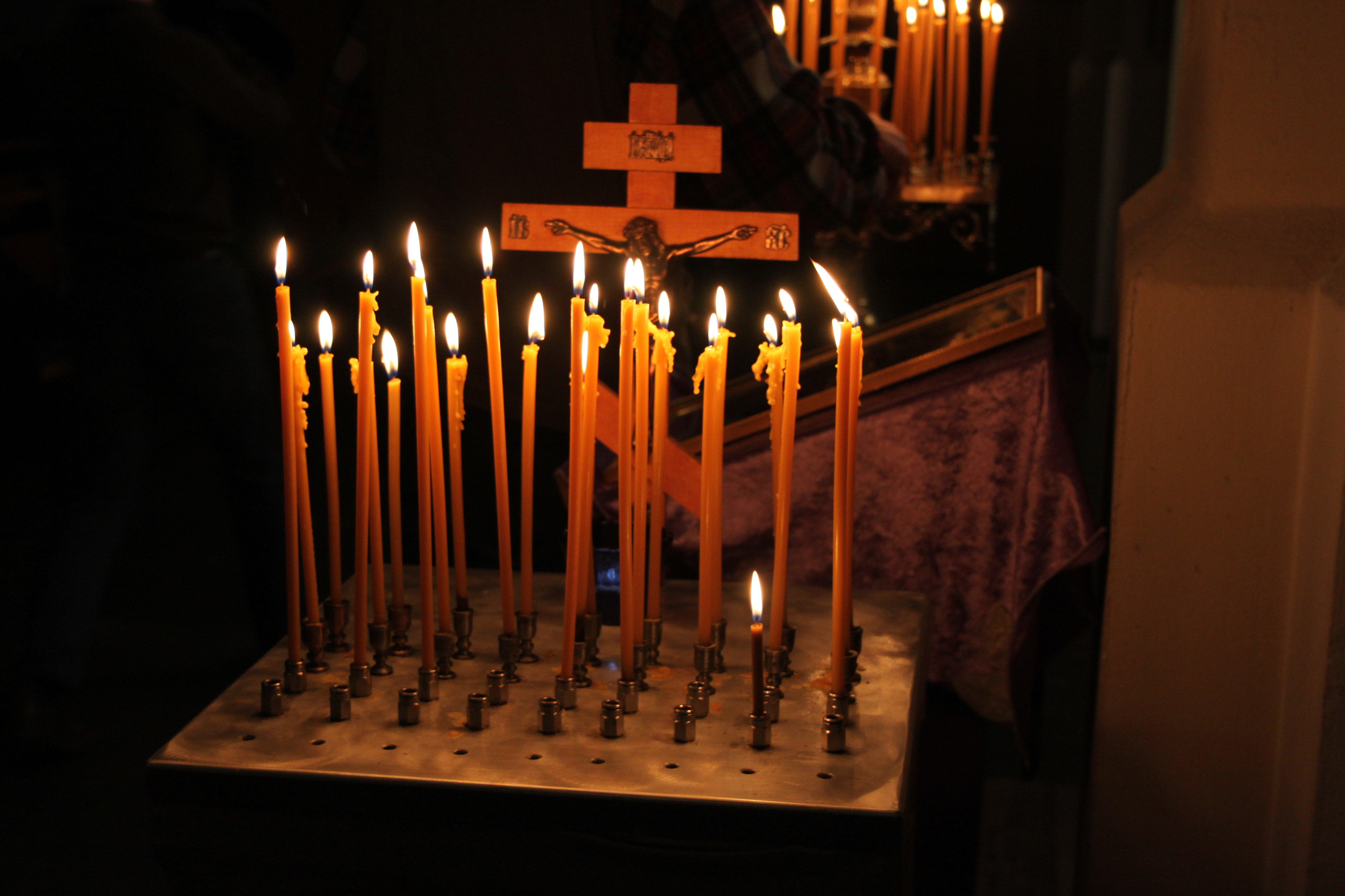 Burning candles during the Divine Liturgy in the Russian Orthodox community "Holy Apostle James Brother of God", Bielefeld, Germany